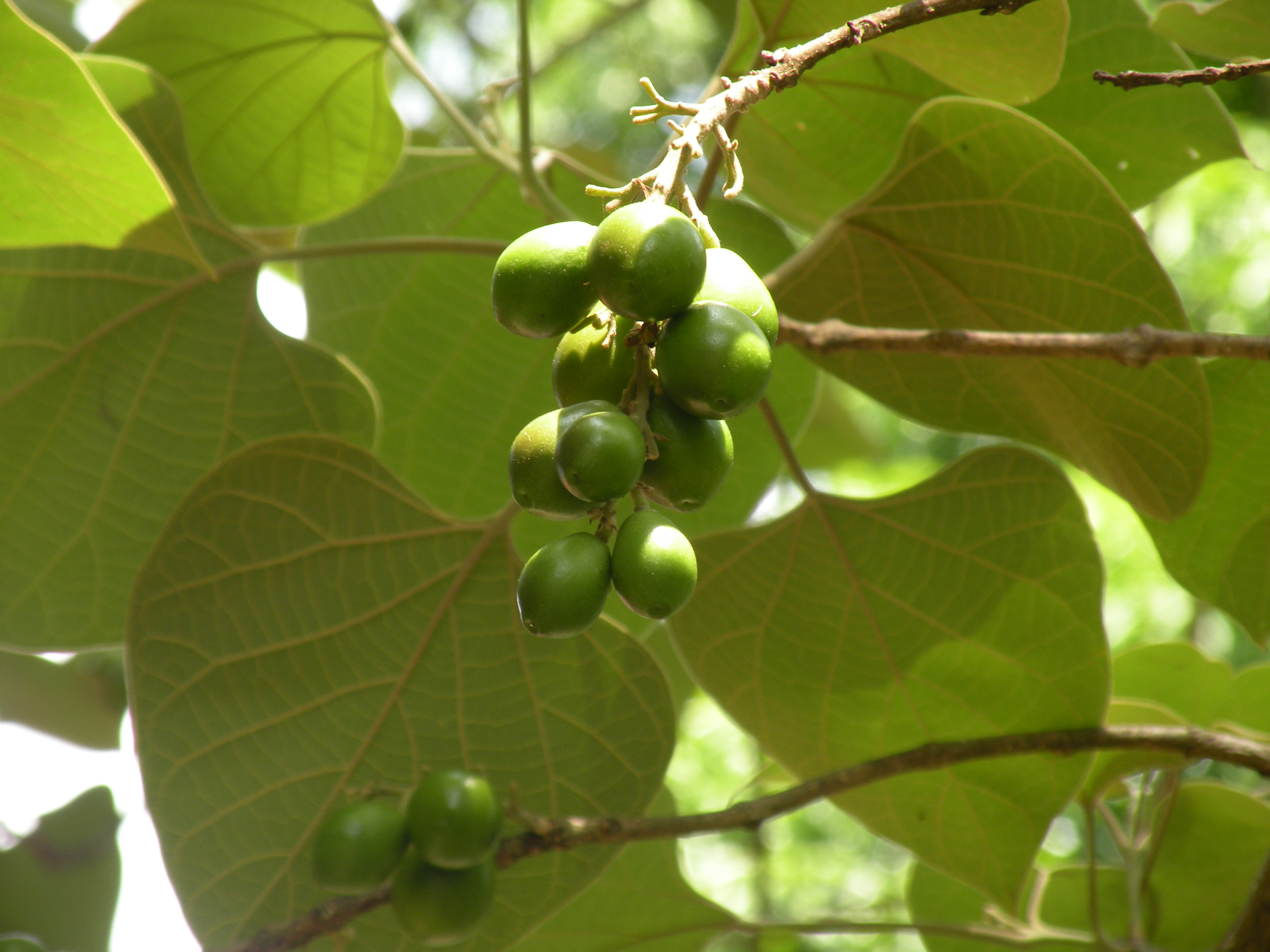 Gmelina arborea in the Brahmagiri Wildlife Sanctuary